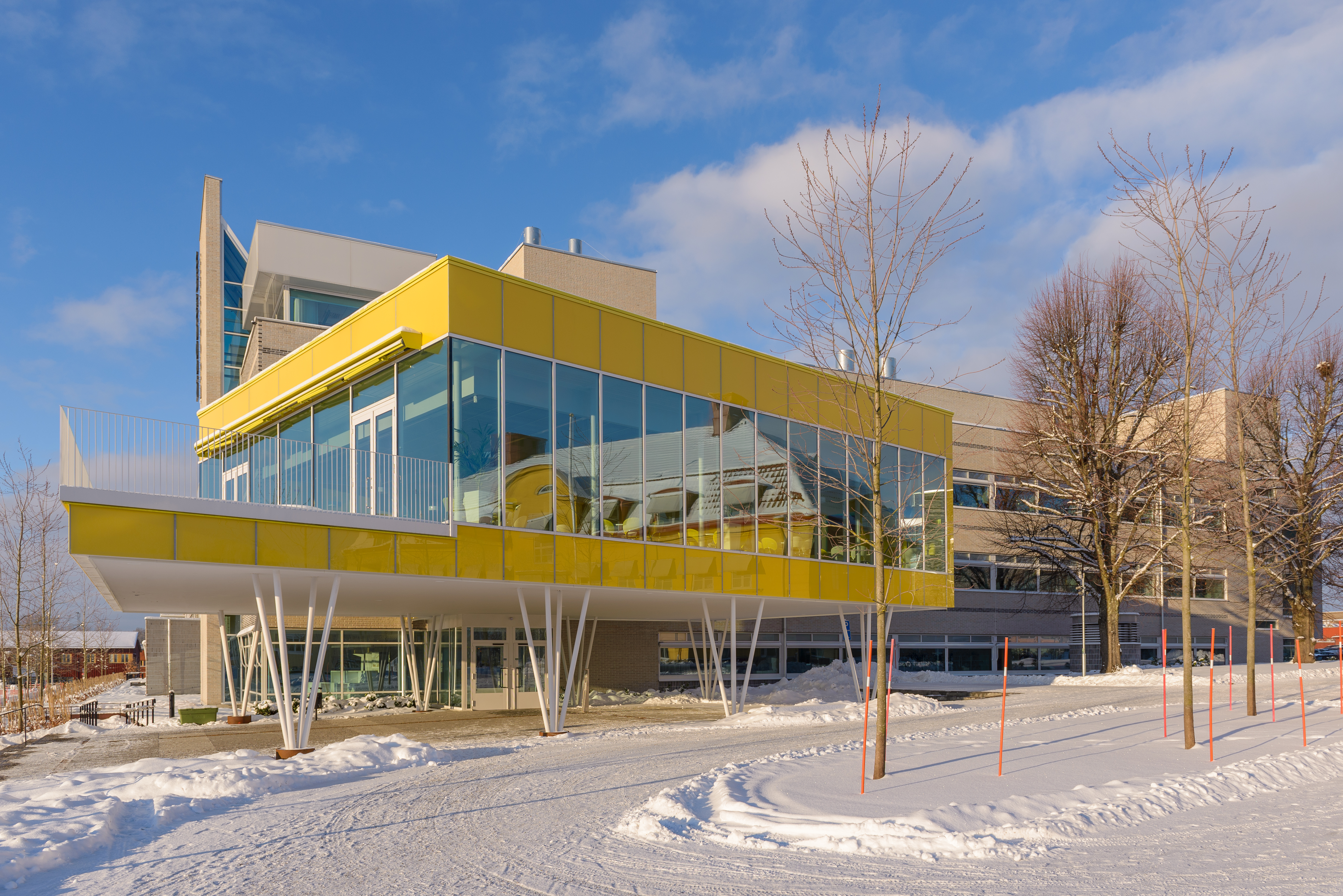 Biocentrum. Swedish University of Agricultural Sciences, Ultuna campus, Uppsala. Architects: Bjurström & Brodin Arkitekter AB.